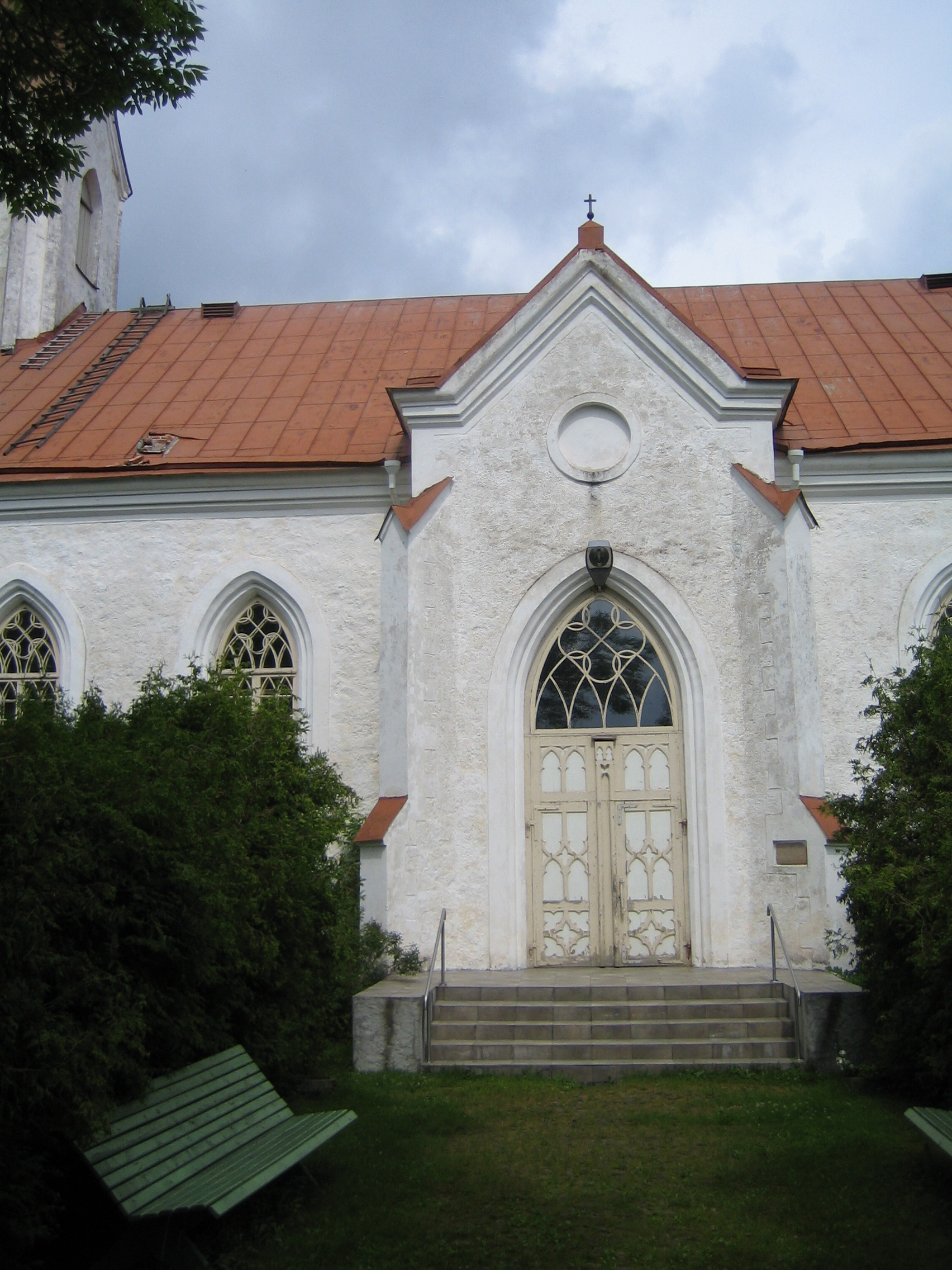 Mustvee churchEesti: Mustvee luterikirik